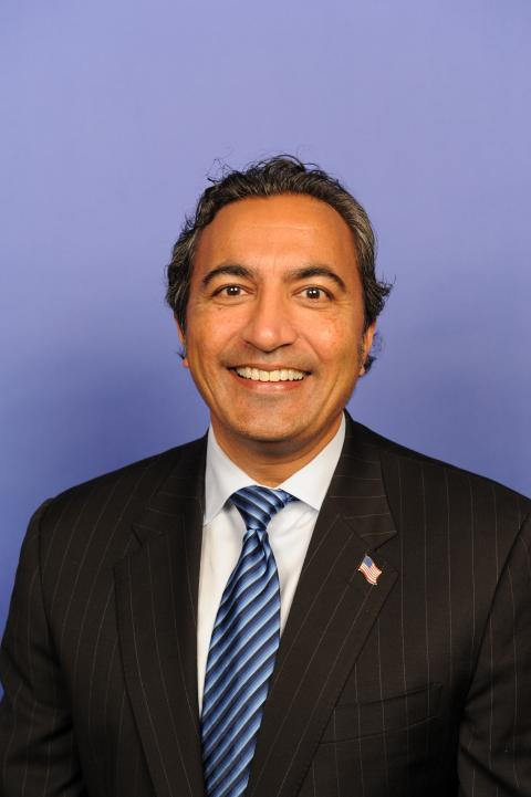 Congressman Ami Bera